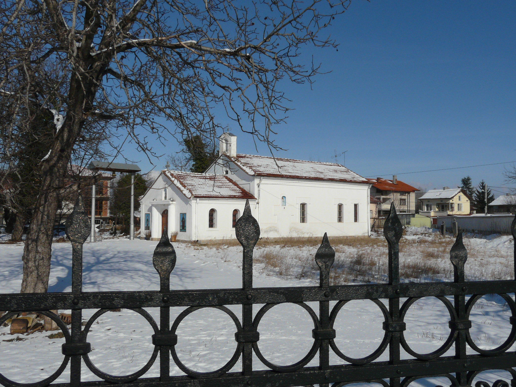 St. Peter and Paul church, Vrazhdebna, Sofia, Bulgaria